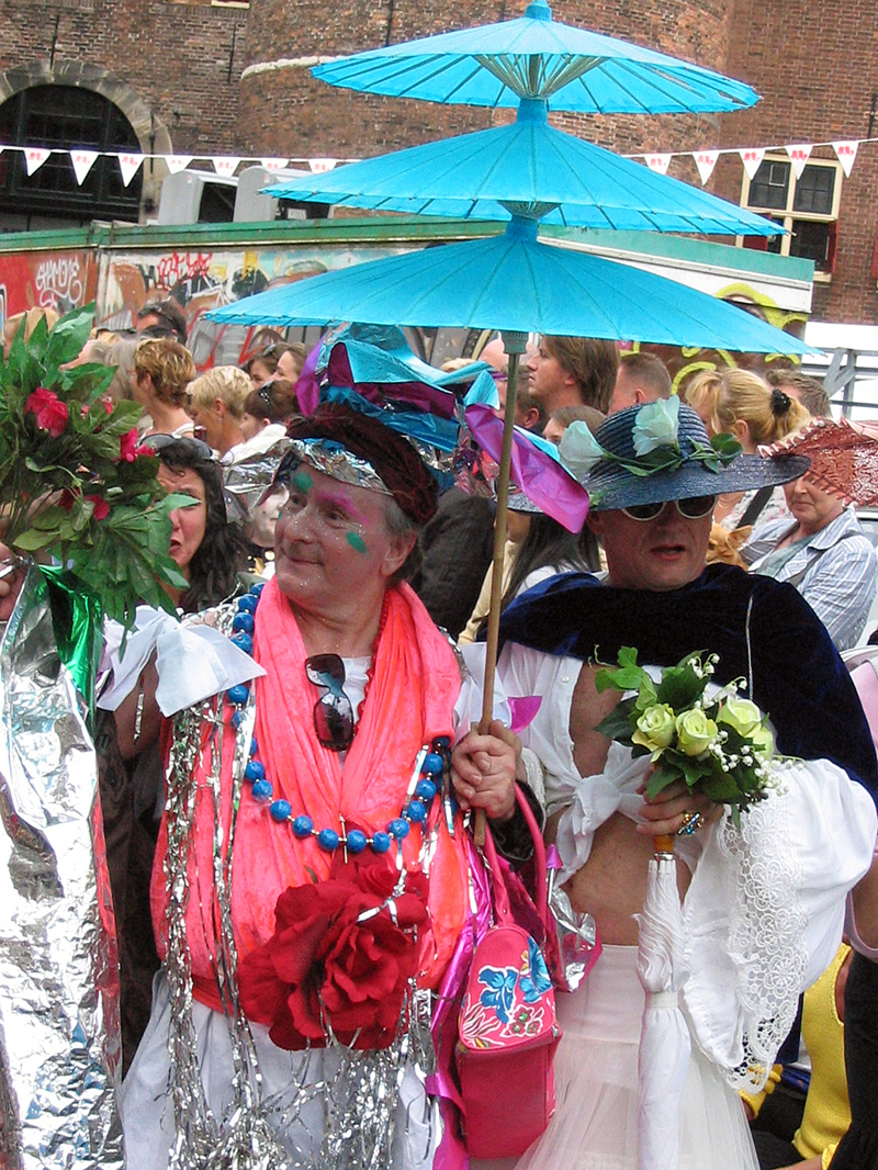 The "living artwork" Fabiola (left), during the transvestite festival called "Hartjesdagen" in Amsterdam, August 2007.